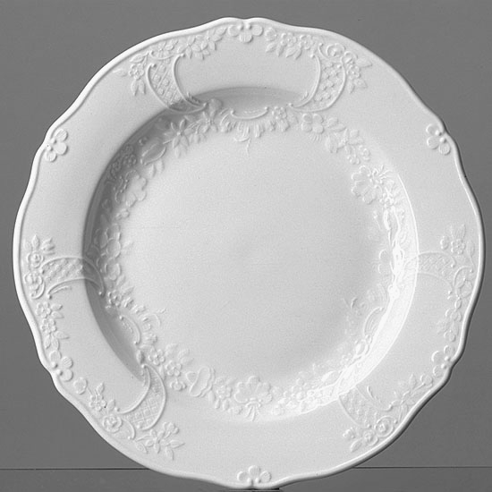 dinner plate, Neumarseille